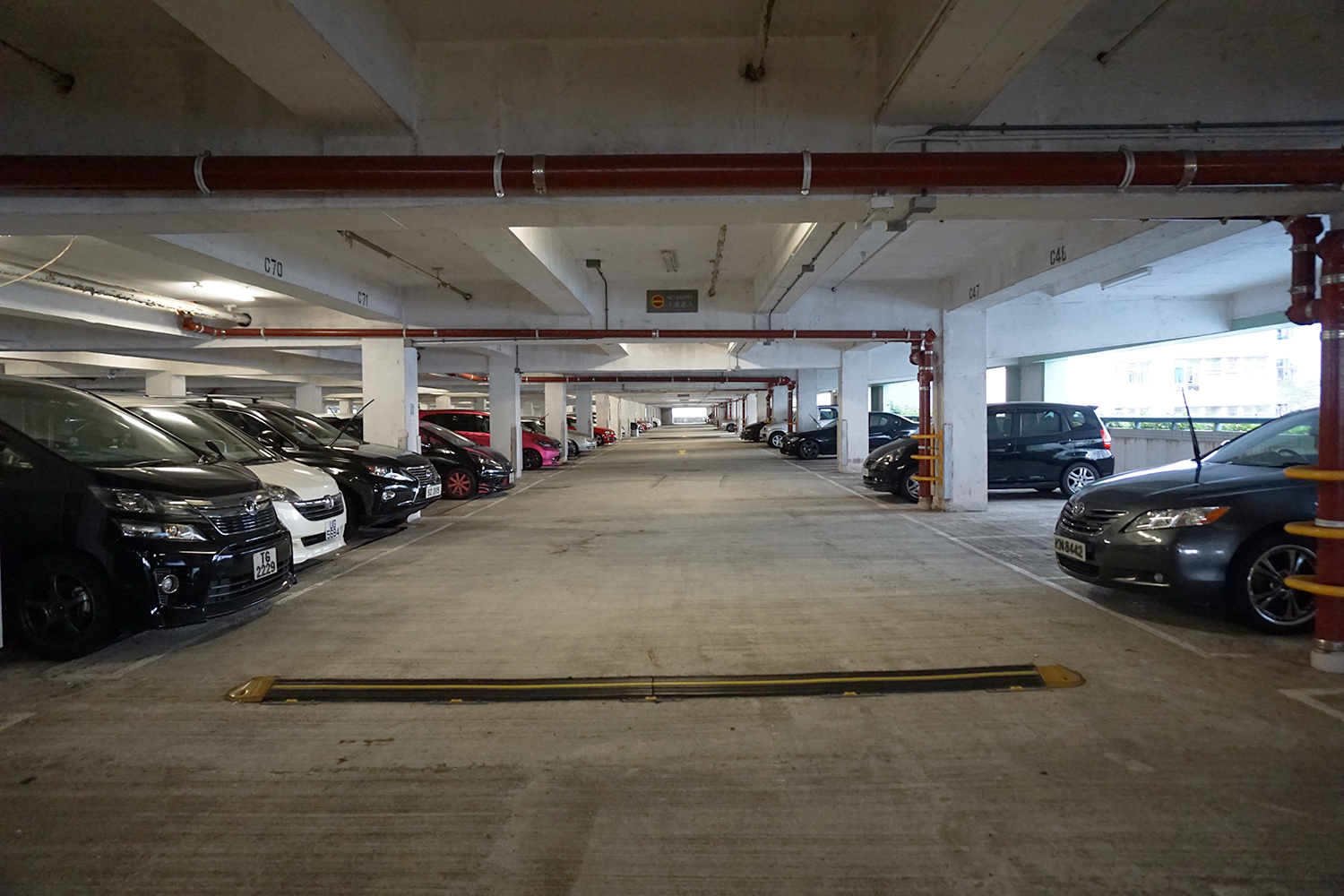 Chung On Estate in Ma On Shan, Hong Kong.